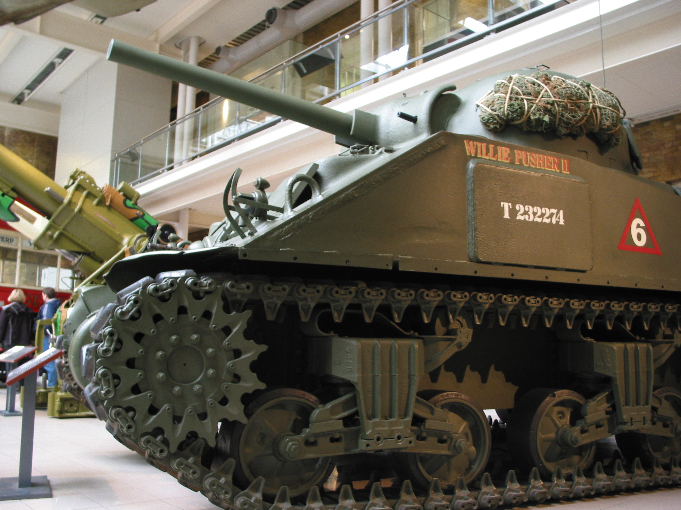 An M4A4 Sherman tank at the Imperial War Museum.